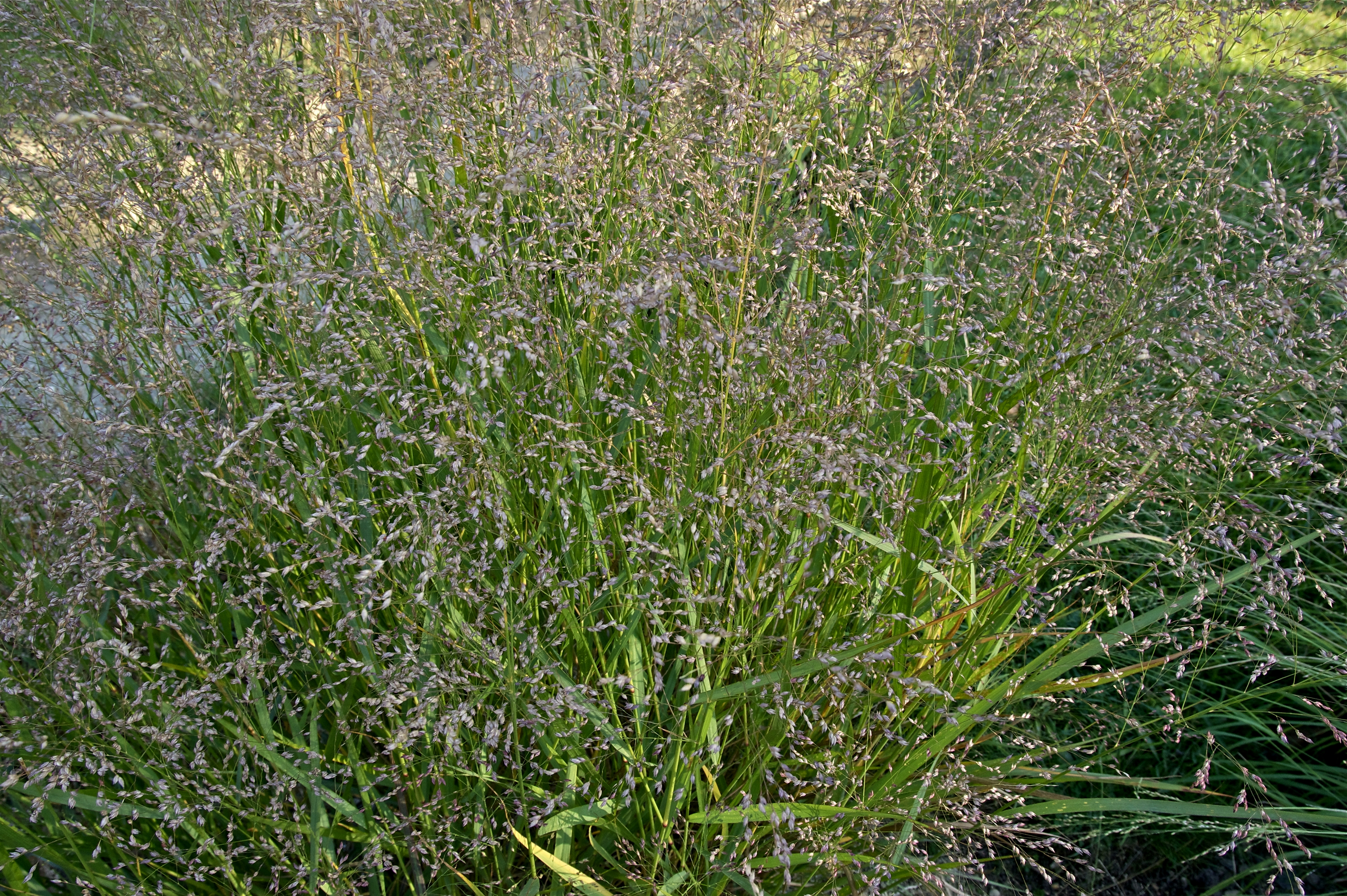 A bush of switchgrass (Panicum virgatum L.) with seeds. Jardin des Plantes, Paris.